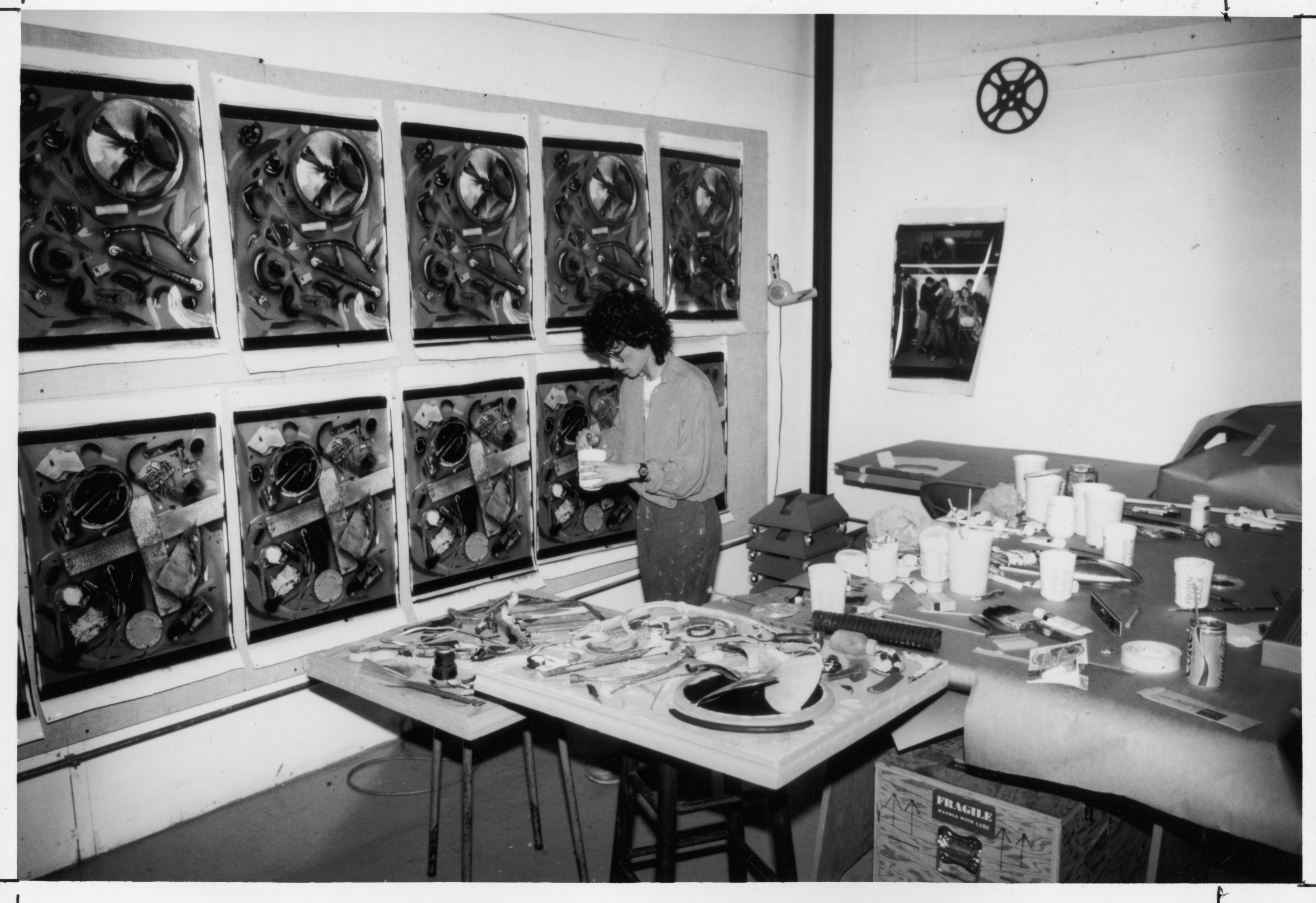 Linda Lindroth in her studio preparing large format polaroids in the 1980s.